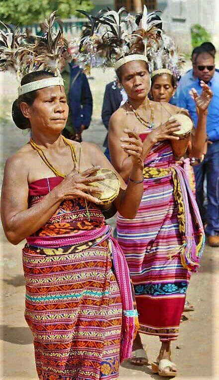 Dancers in Macadique Tetun: Florentina da Conceição Pereira Martins Smith